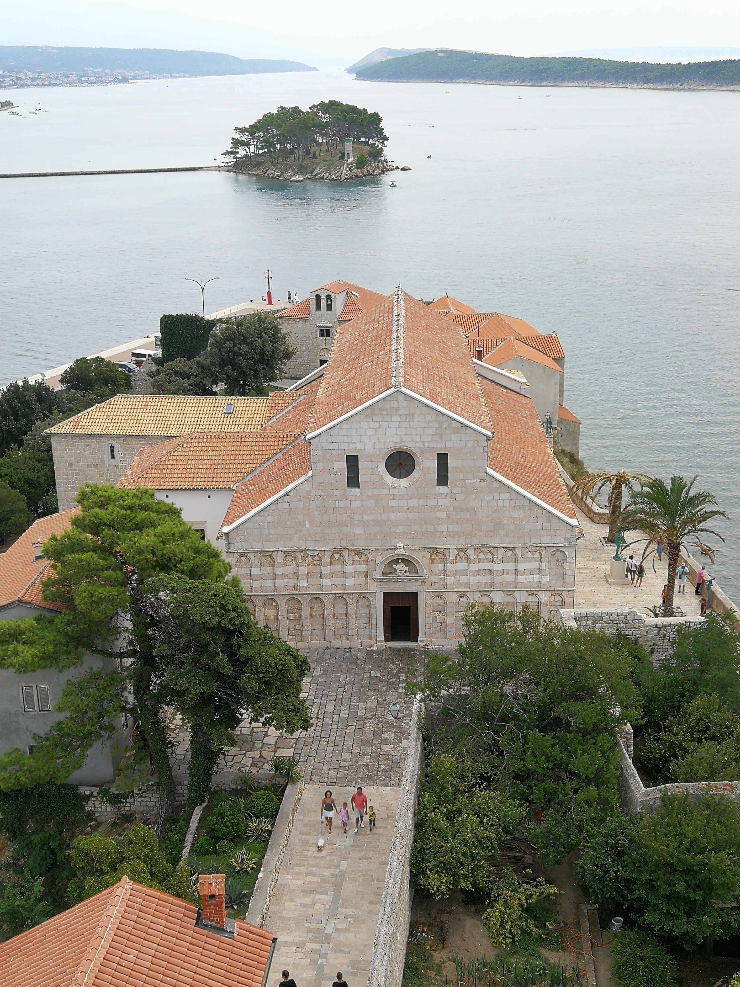 View from the belfry onto the Cathedral of the Assumption of the Blessed Virgin Mary (Rab)